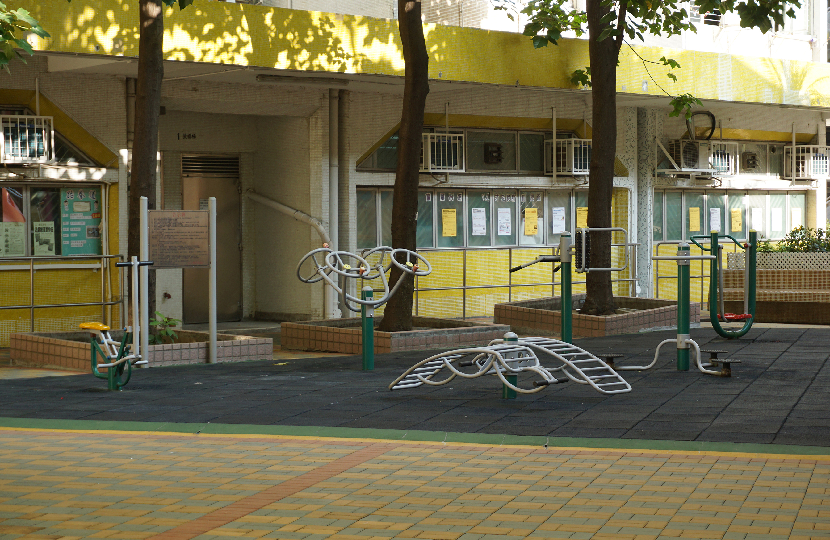 Cheung On Estate in Tsing Yi, Hong Kong.